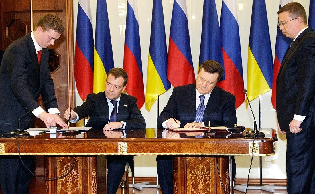 KHARKIV, UKRAINE. Signing of a Russian-Ukrainian agreement on the presence of Russia’s Black Sea Fleet on Ukrainian territory. With President of Ukraine Viktor Yanukovych.